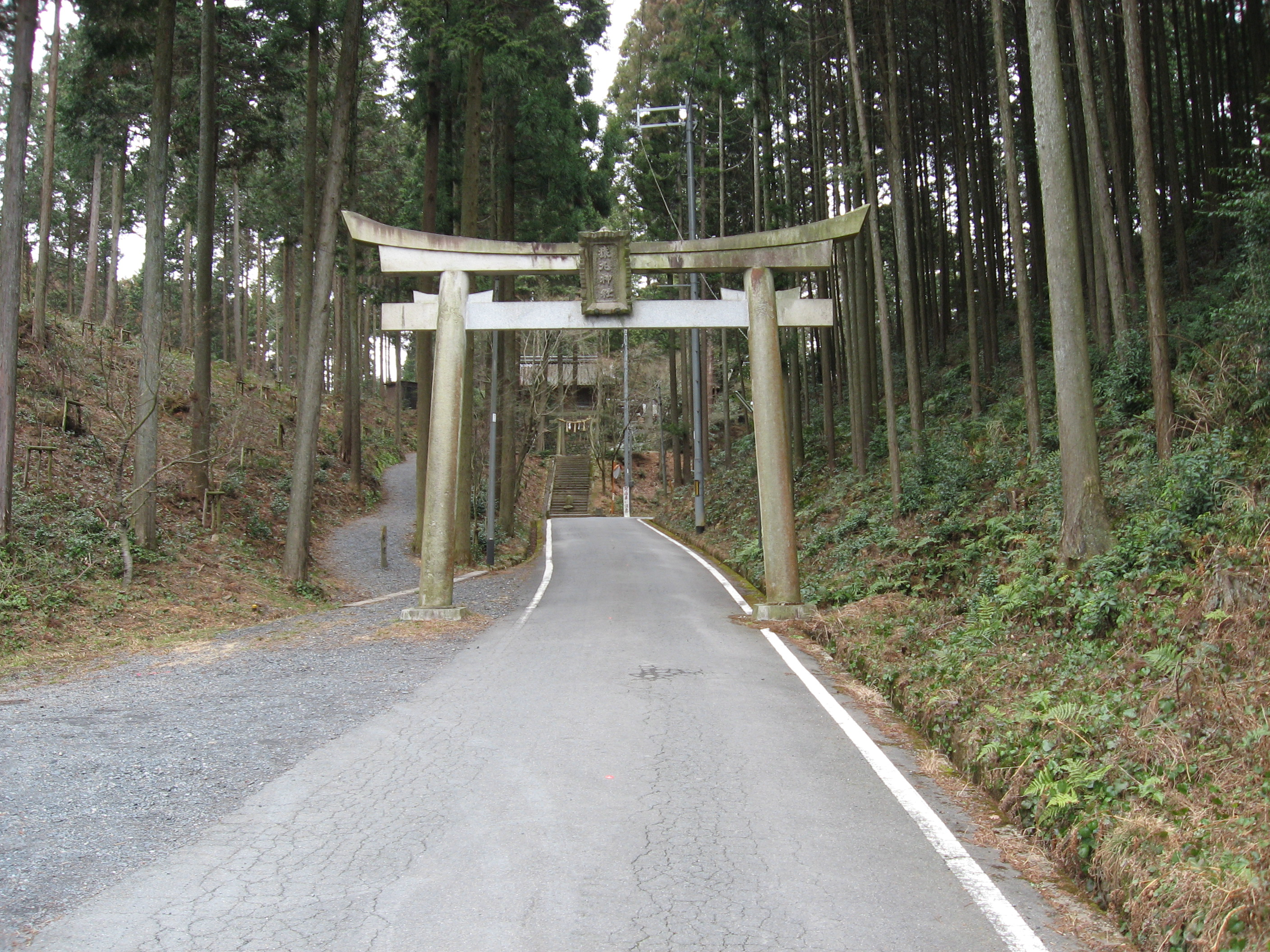 Torii and approach to Sarumaru shrine